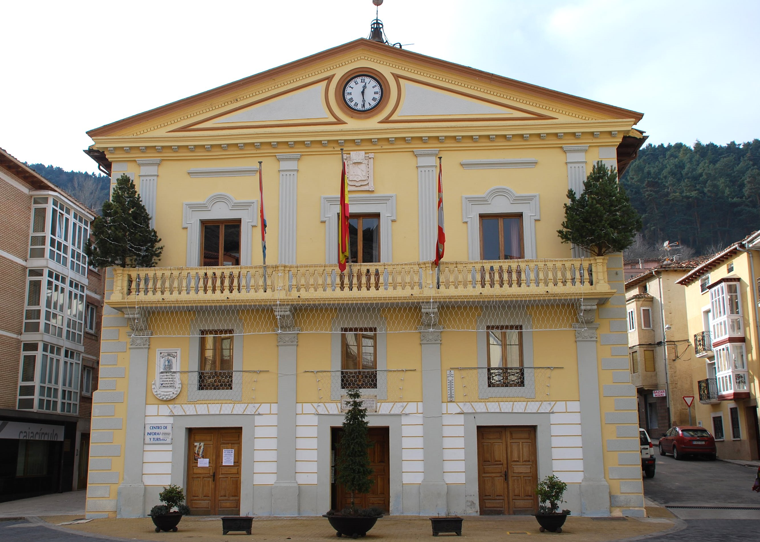 Casa Consistorial de Pradoluengo, Burgos (España).